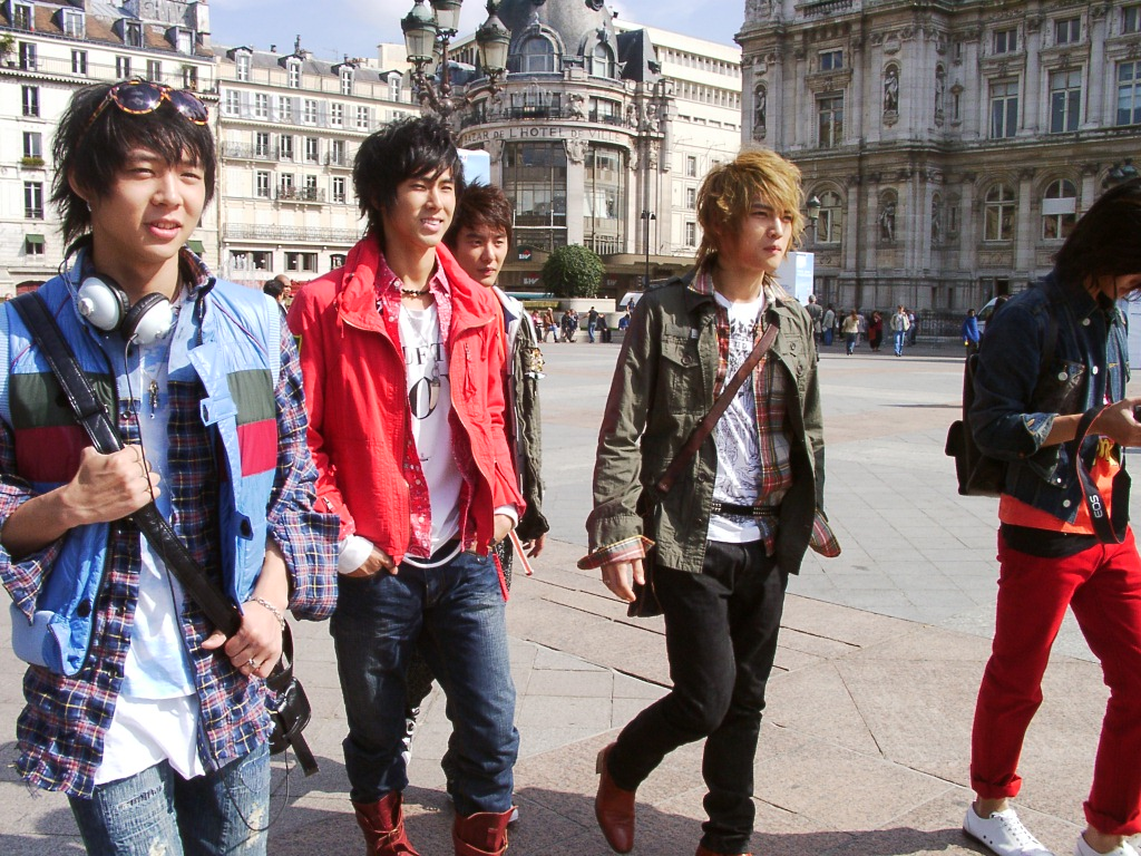 Wikipedia:en:TVXQ (aka DBSK aka Tohoshinki) walking around in Paris, France. From left-to-right: Micky Yoochun, U-know Yunho, Xiah Junsu, Hero Jaejoong, Max Changmin